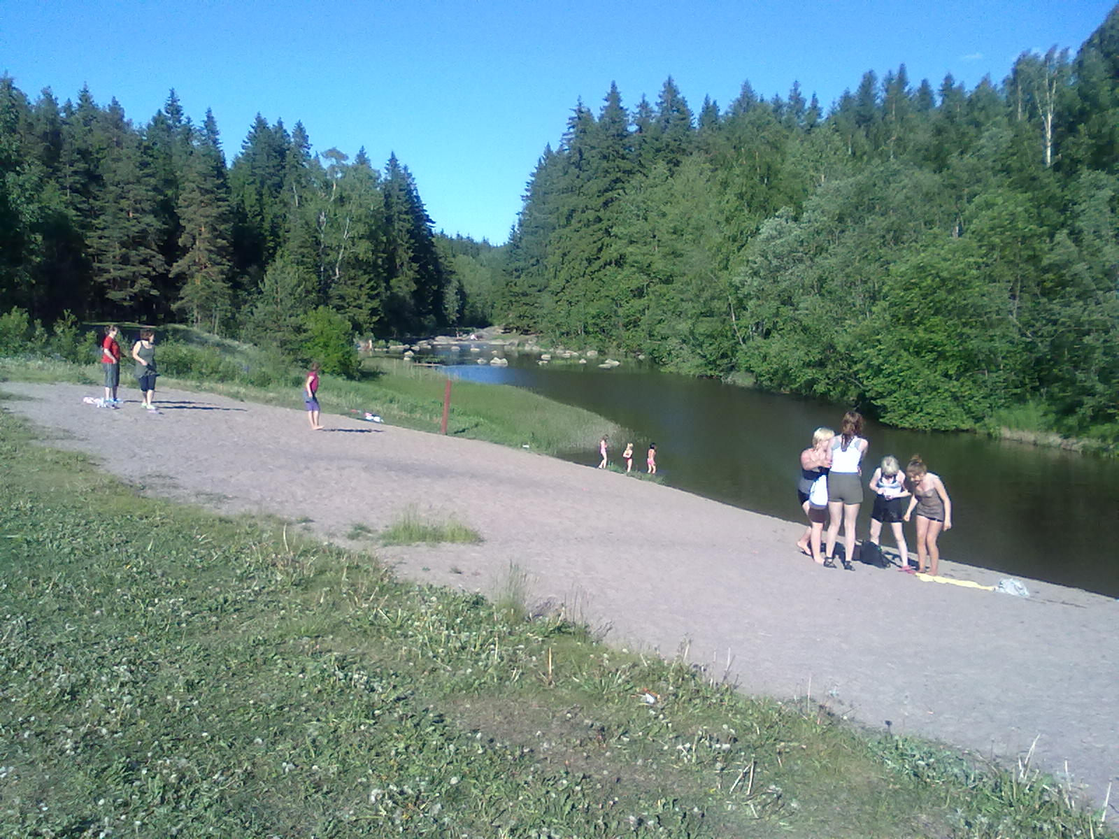 Matari's Beach (Matarin uimaranta in Finnish) is a small public beach in Vantaa City. Beach is part of Keravanjoki river and beach includes: changing room, slide, swing, wc, and free parking area for ten cars.